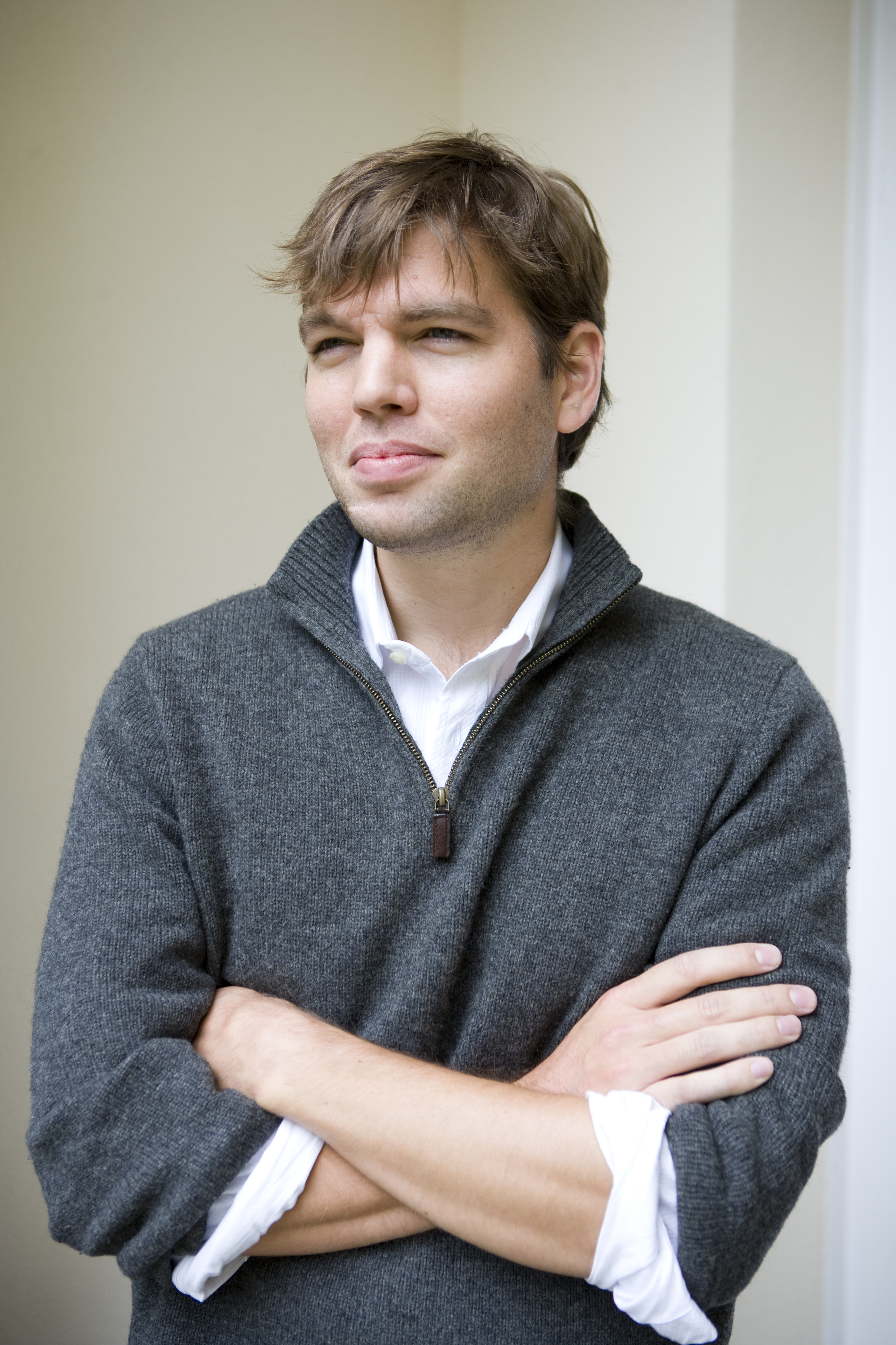 Johnson at the American Academy in Berlin. © Annette Hornischer